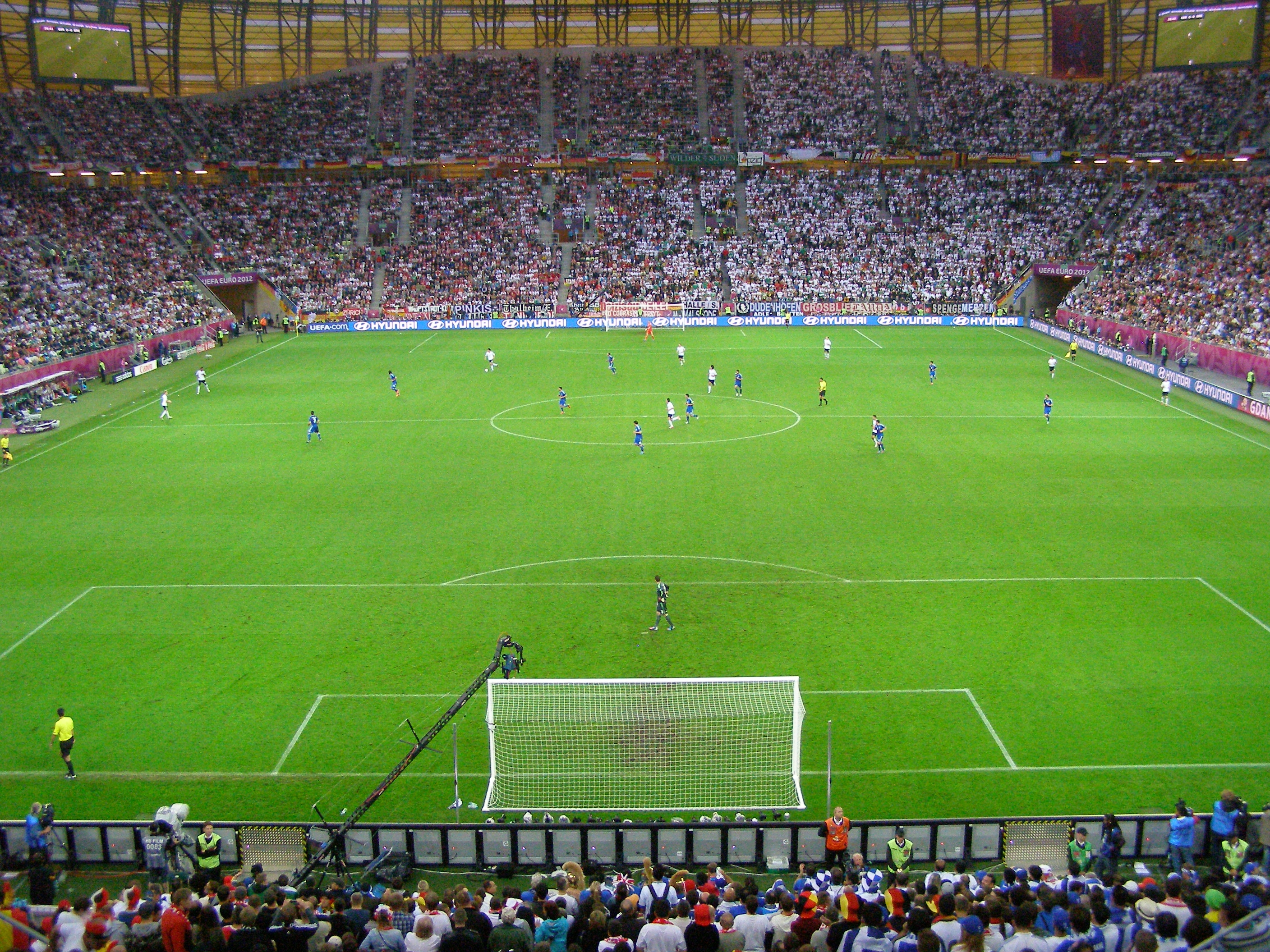 Gdańsk - PGE Arena - Euro 2012 - quarter final match Germany - Greece